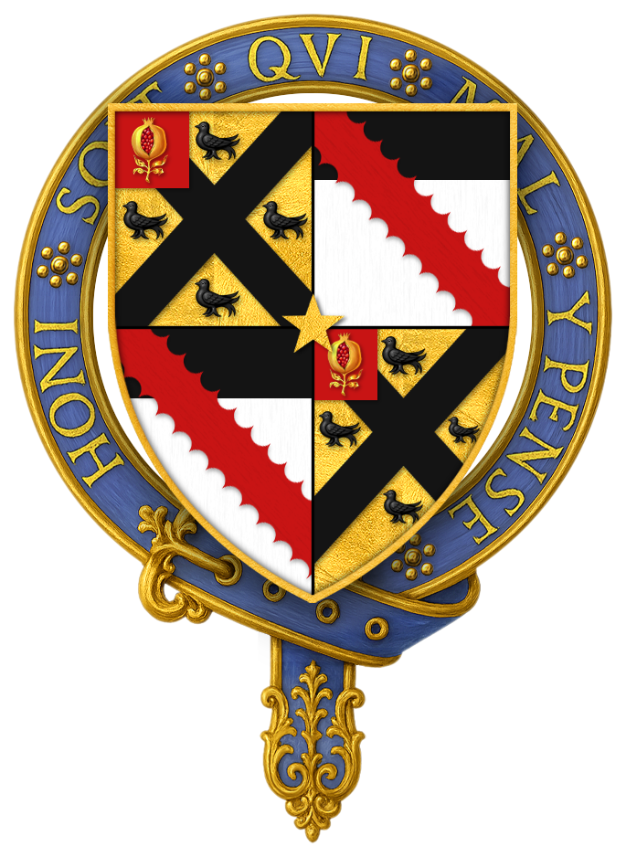 Coat of arms of Sir Henry Guildford, KG Sir Henry's stall plate remains installed within St. George's Chapel. The arms thereon are, quarterly: 1 and 4, or, a saltire between four martlets sable, on a canton gules a pomegranate or (Guildford); 2 and 3, argent a chief sable, over all a bend engrailed gules (Halden); and at the center point, a mullet for difference.